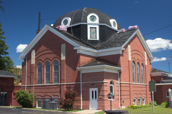 Clare Congregational Church-Clare